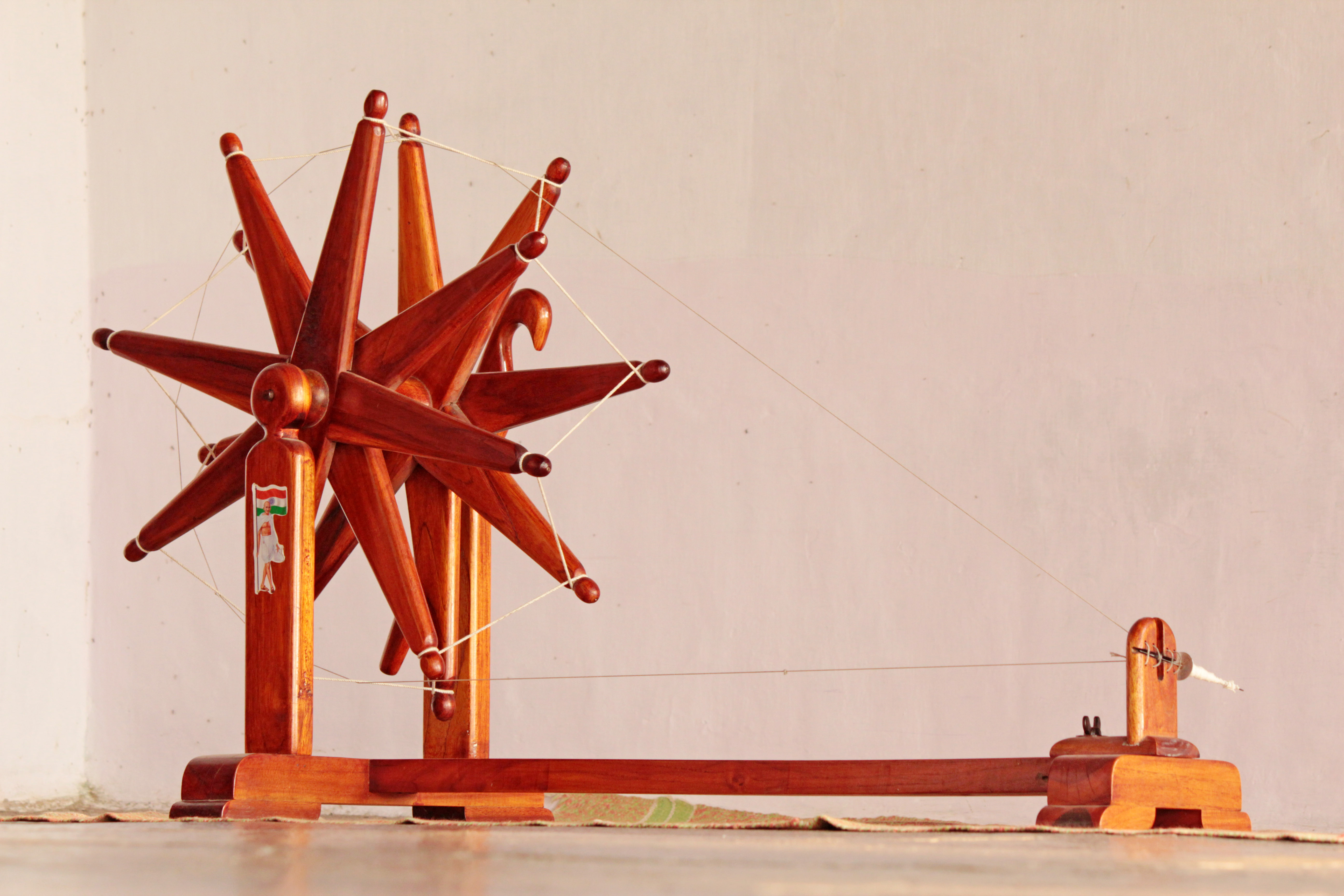 This Charkha was used by Gandhi, which is one of the priceless items kept at Gandhi Ashram, Ahmedabad, India.